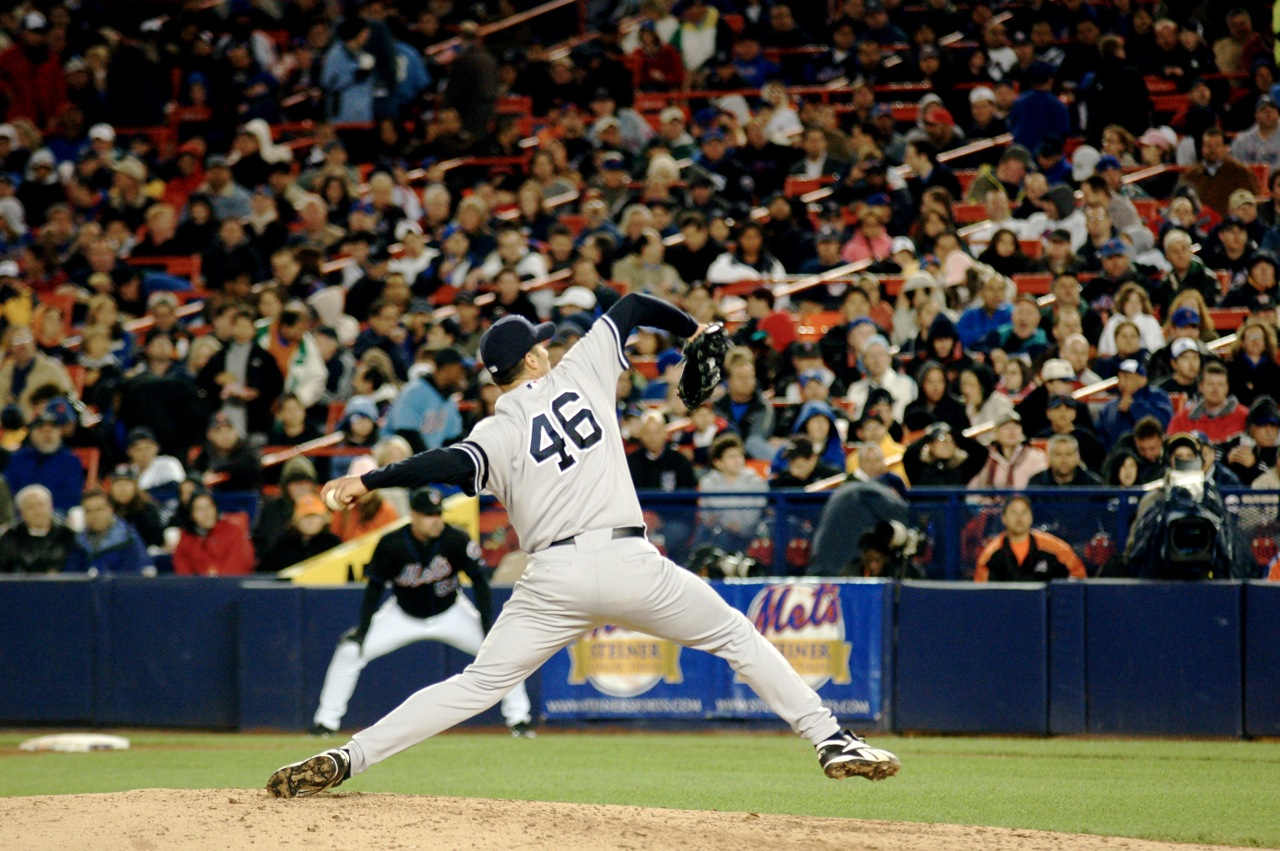 Andy Pettitte pitching at Shea Stadium.